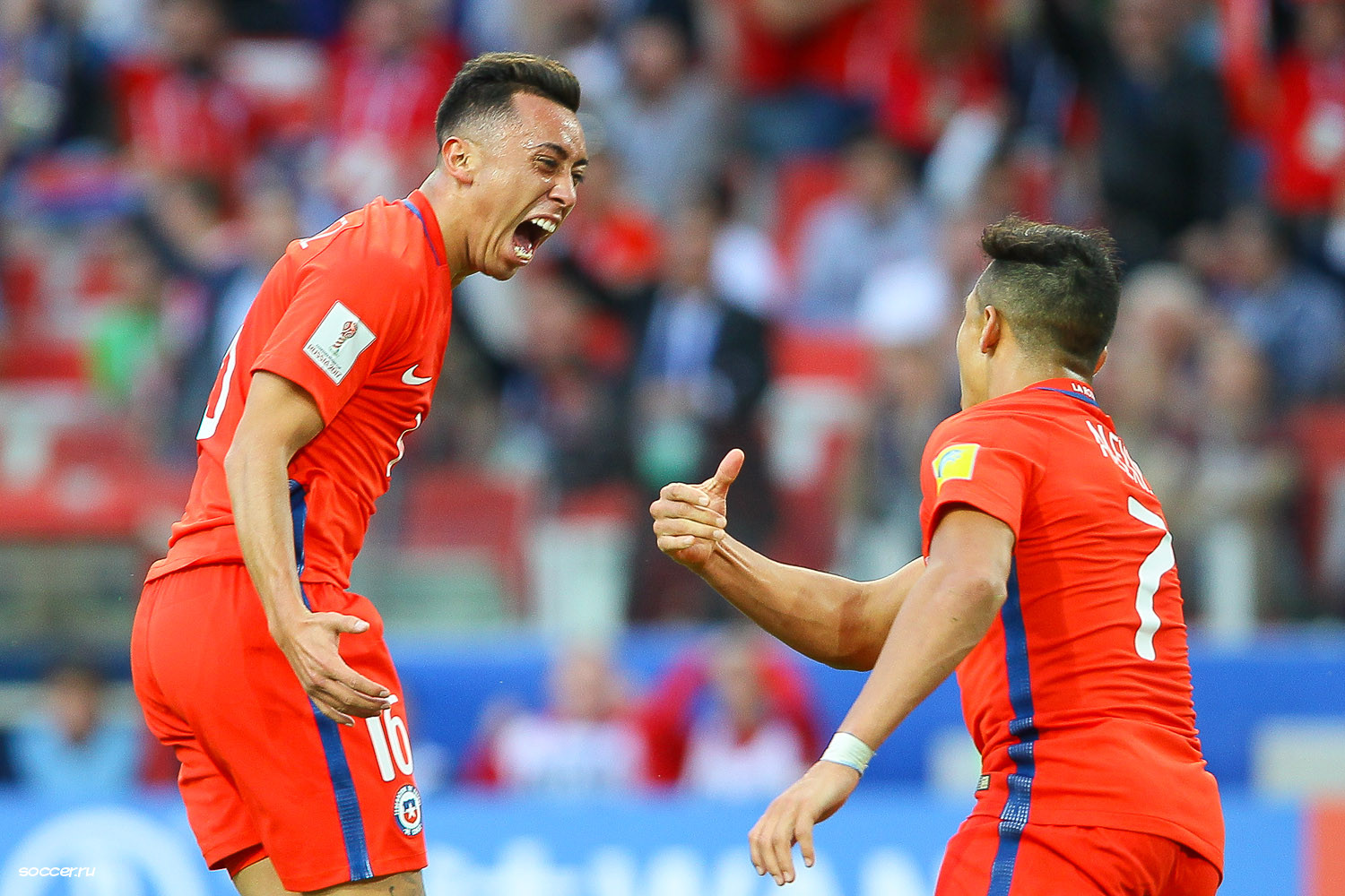 Chile VS. Australia 1 - 1, 25 June 2017